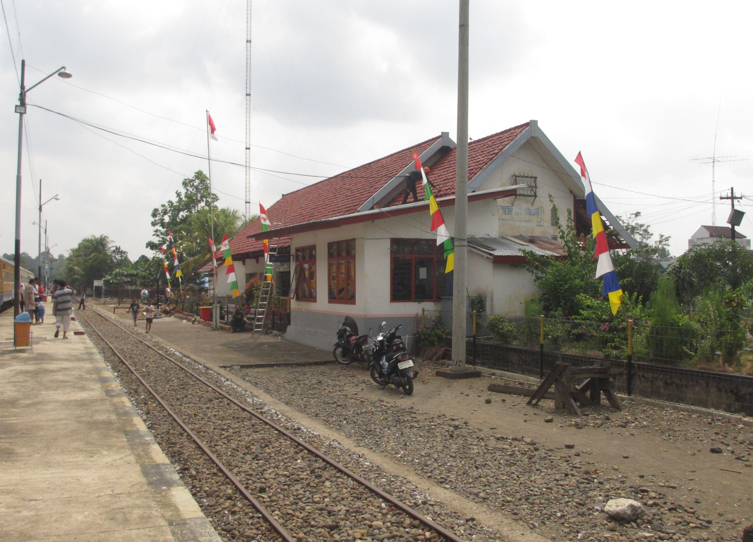 Tebingtinggi Railway Station, Empat Lawang Regency, South Sumatra.